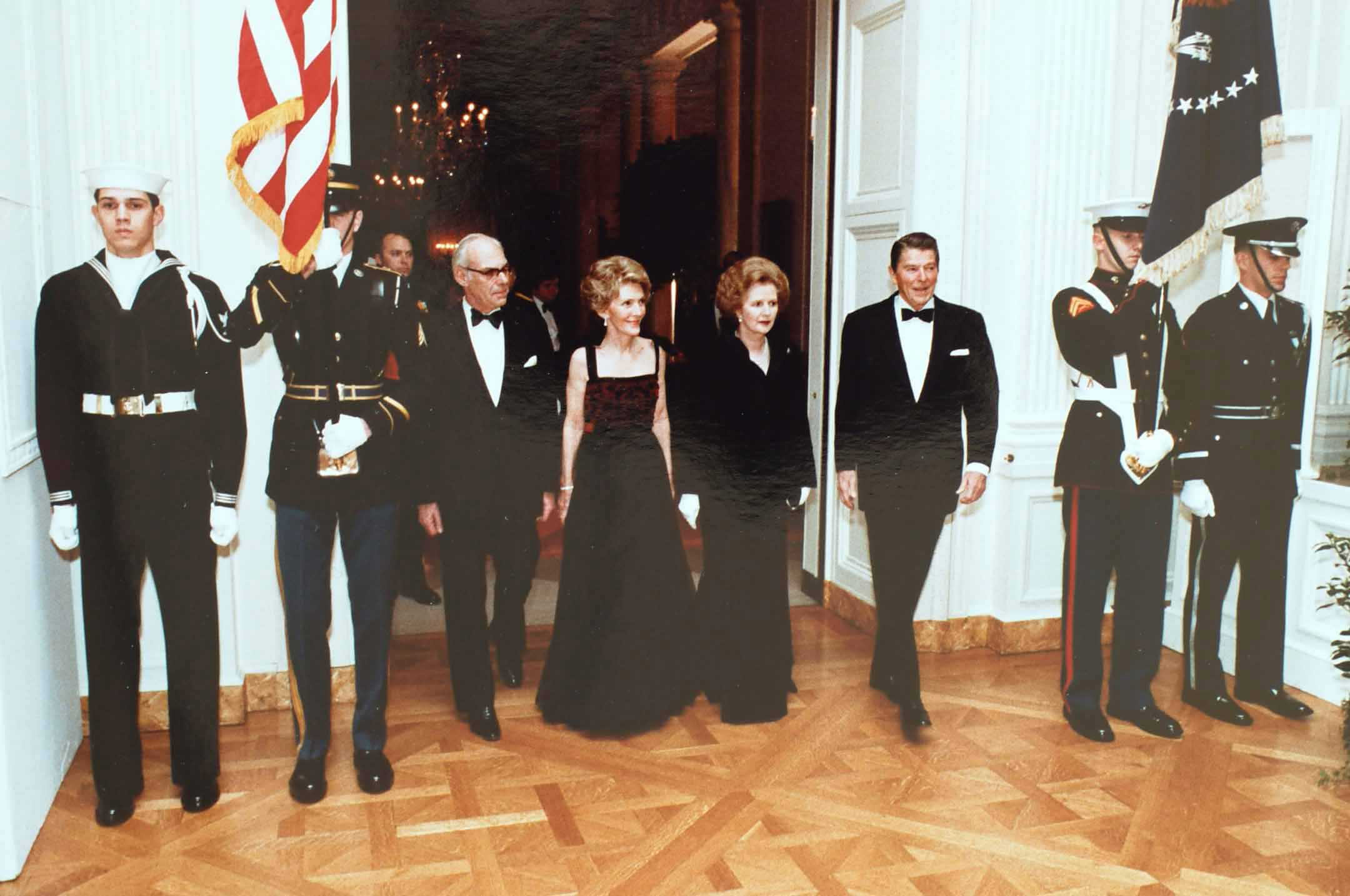 The Reagans and the Thatchers at the White House state dinner.